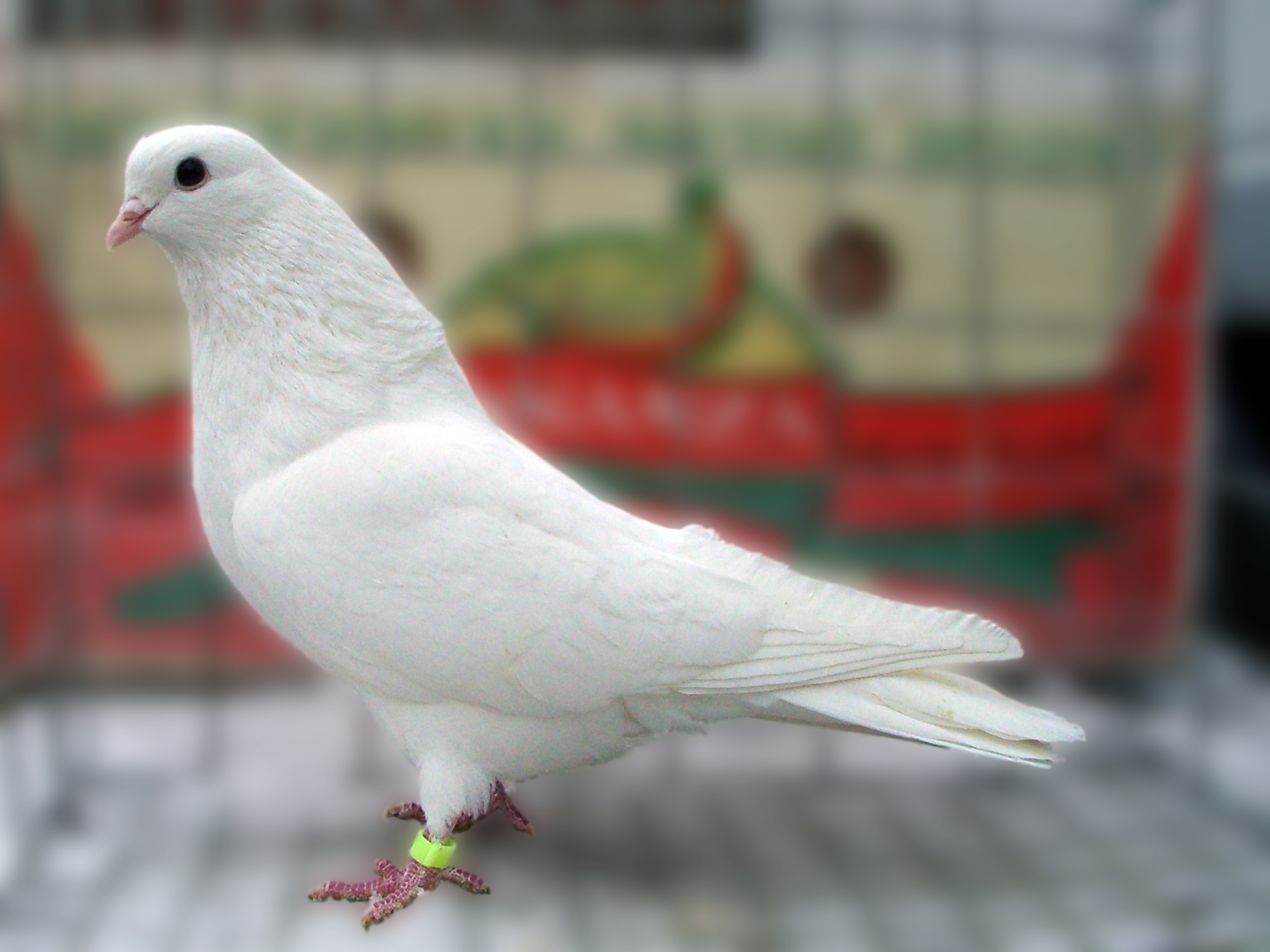 Chistopolian High-flying White Solid Pigeon